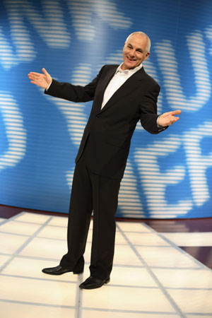 Shane Bourne, Australian stand-up comedian and actor, at the Melbourne Showgrounds studio